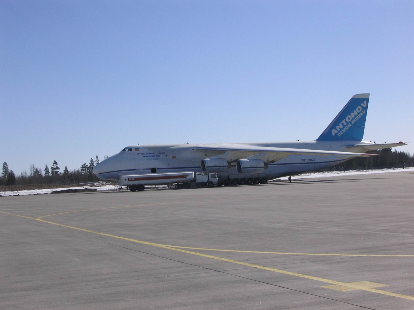 Antonov An-124 UR-82027, (19530502288) ex. CCCP-8202.